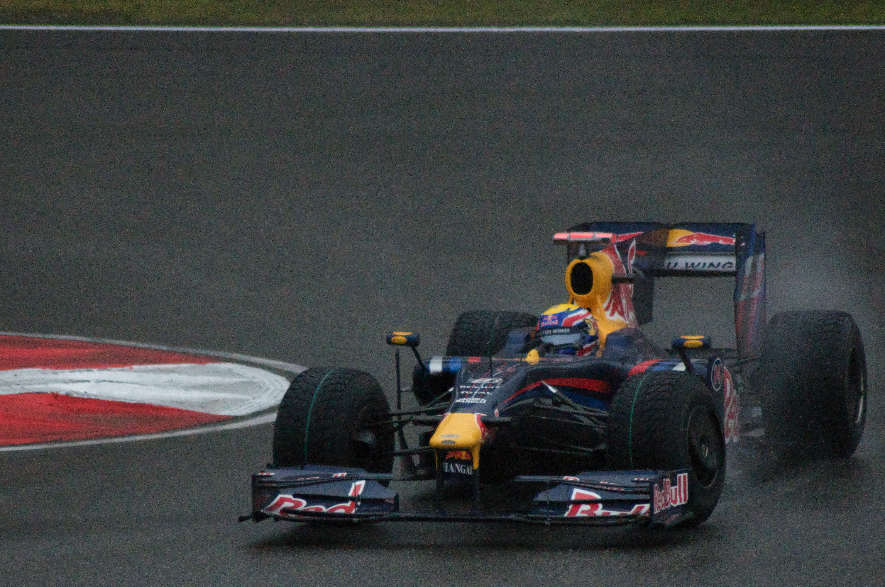 Mark Webber driving for Red Bull Racing at the 2009 Chinese Grand Prix.